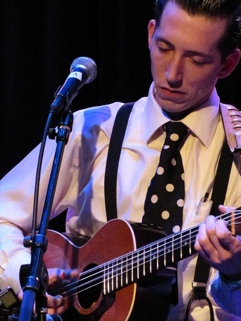 Pokey LaFarge plays guitar at the Square Room in Knoxville, TN on April 17, 2010.